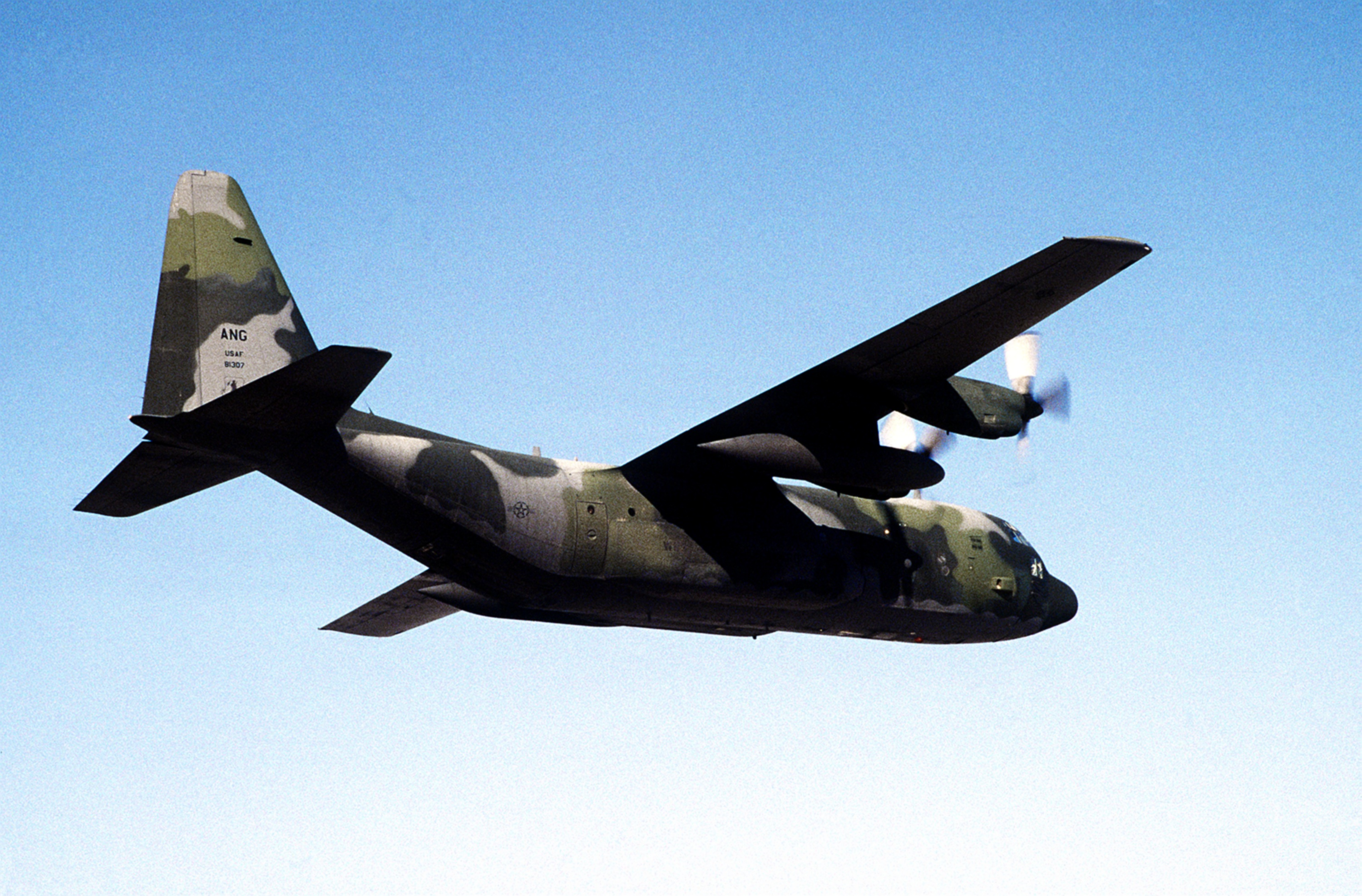 A U.S. Air Force Lockheed C-130H Hercules (s/n 88-1307) from the 130th Airlift Squadron, 130th Airlift Group, West Virginia Air National Guard flies over the United Arab Emirates during a troop-carrying mission in support of operation "Desert Storm". The aircraft was assigned to the 1630th Tactical Airlift Wing from January to April 1991 during the Gulf War.